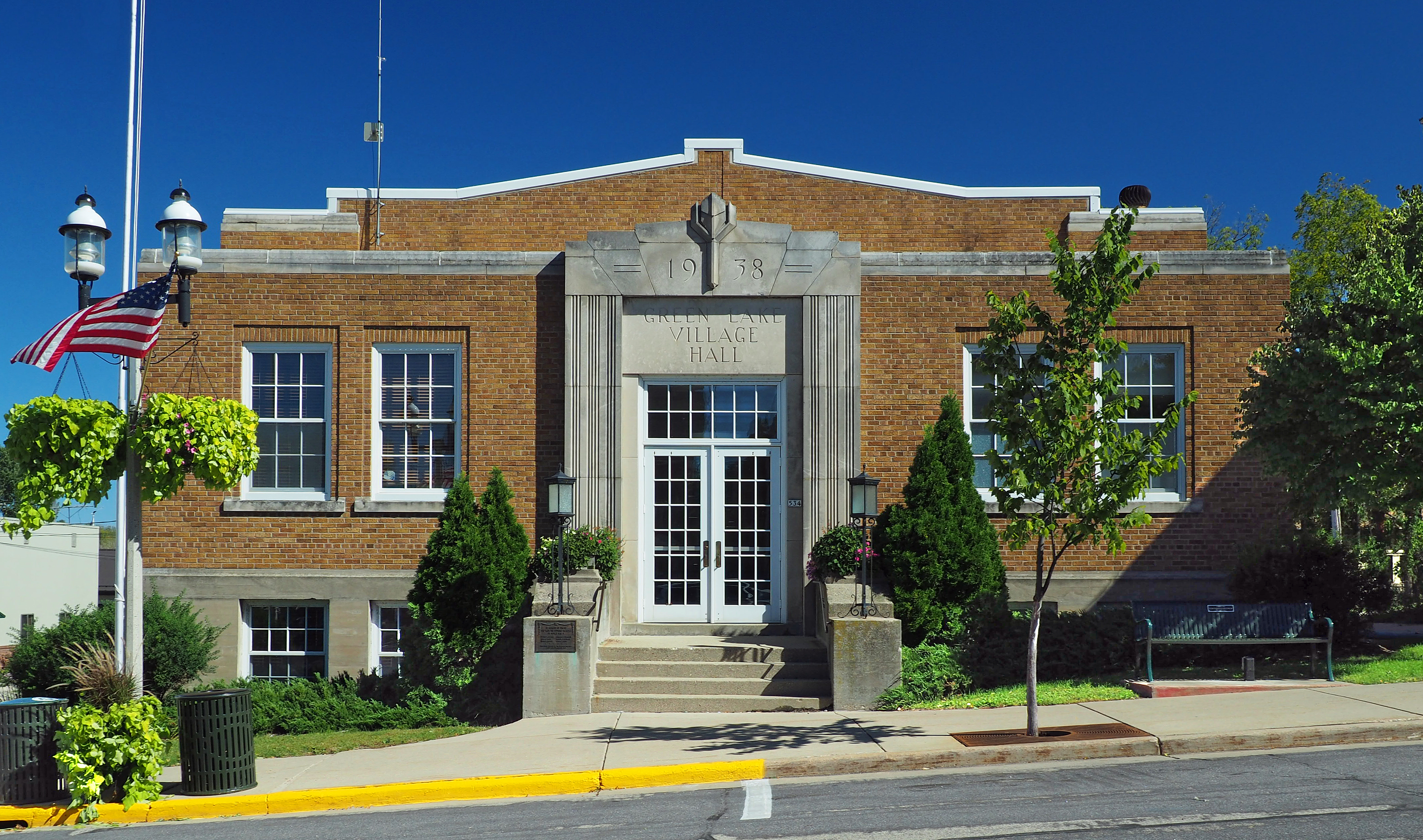 Green Lake Village Hall, 534 Mill St, Green Lake, Wisconsin, USA. Viewed from the west.